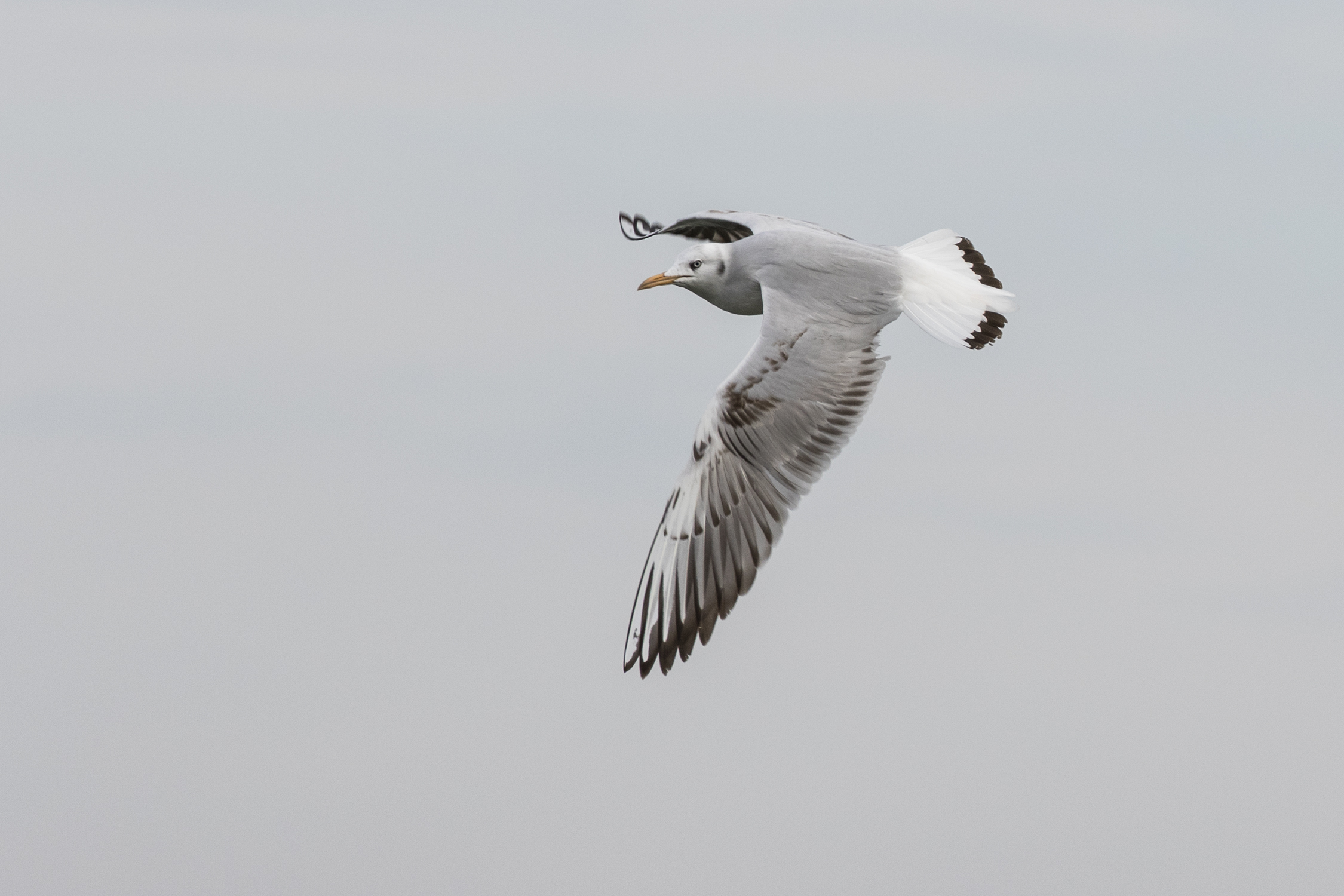 A juvenile Slender-billed Gull (Chroicocephalus genei) in Tuz Lake in Tuzla, Karataş - Adana, Turkey.